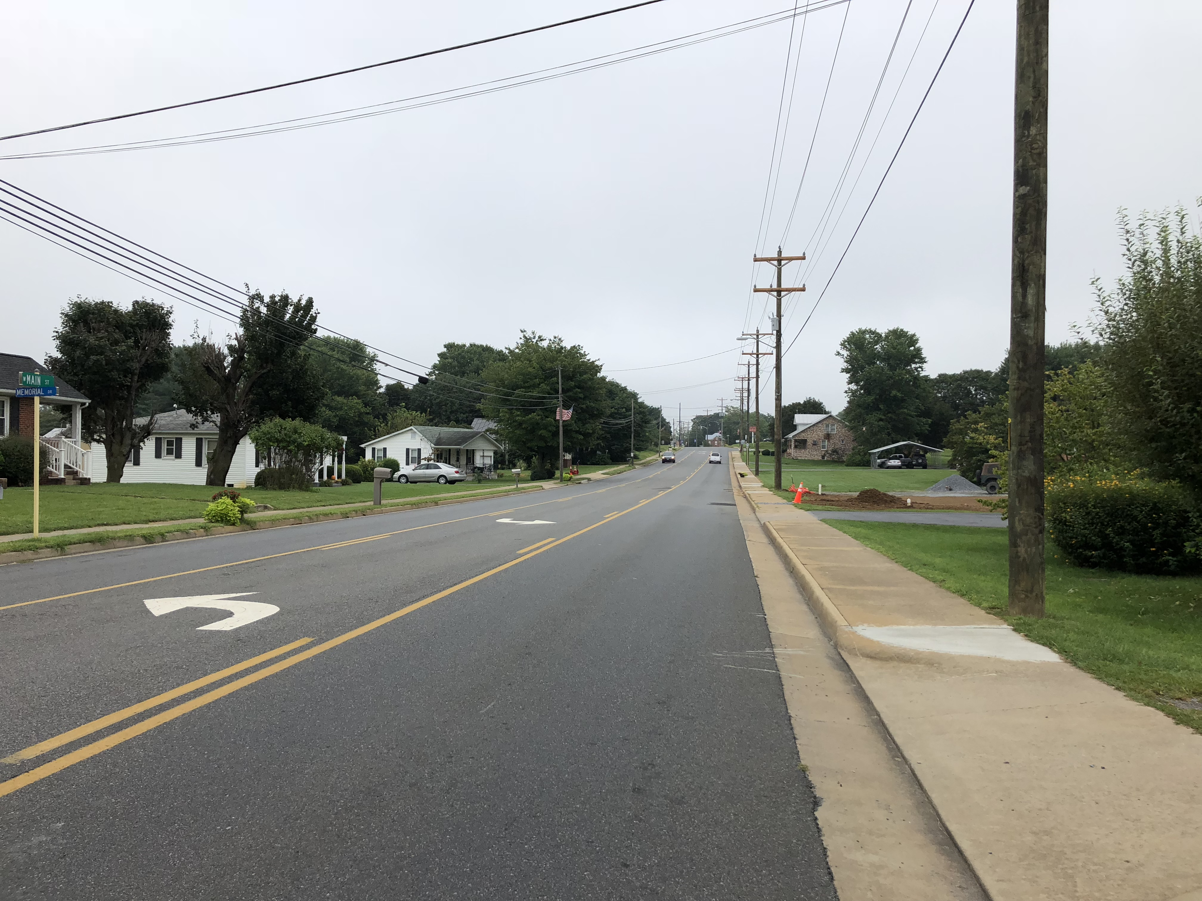 View north along U.S. Route 340 Business (Main Street) at Memorial Drive in Stanley, Page County, Virginia